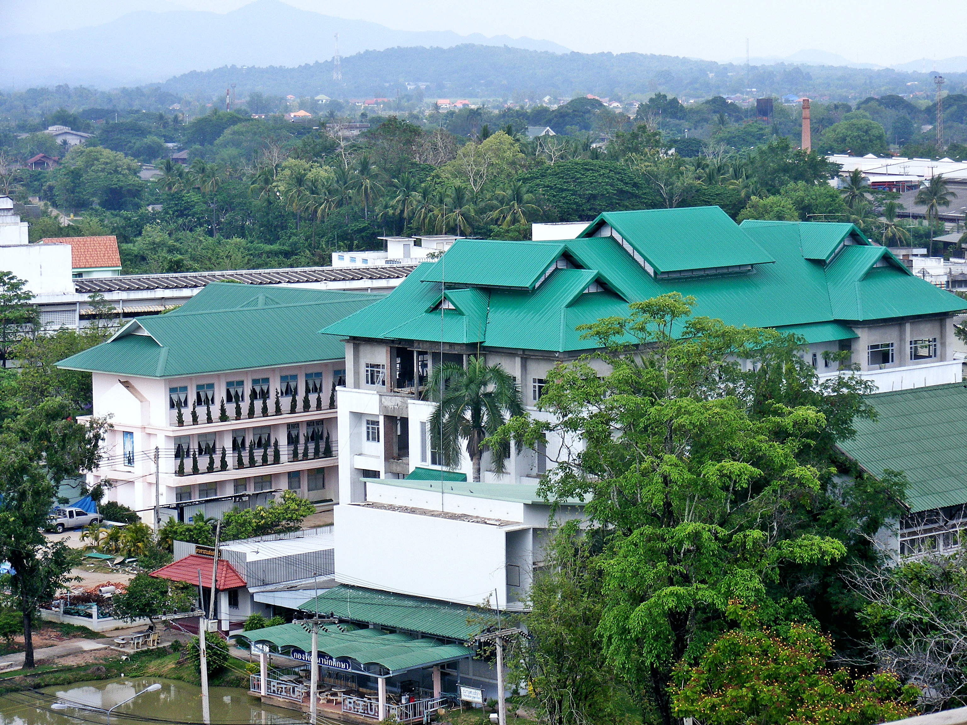 Uttaradit Rajabhat University Location: Uttaradit Rajabhat University Mueang Uttaradit, Uttaradit Province, Thailand.